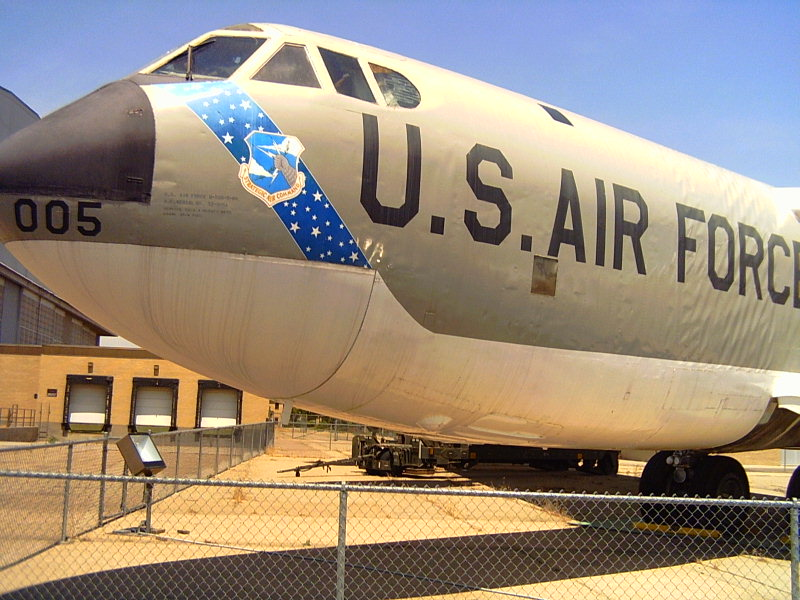 Personal photograph taken by LanceBarber at Wings Over the Rockies Air and Space Museum, 2006. No copyrights, free and fare use to public. Request "Courtesy of Lance Barber, Wings Over the Rockies Museum" line to be used by public. Thank you.